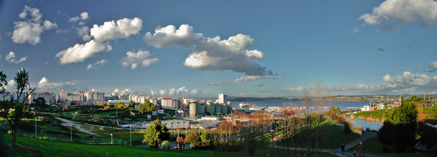 Panoramic view of A Coruña, Galicia (Spain).